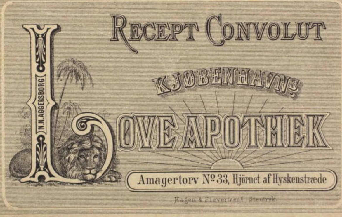 Advertisement (perscription envoloppe=) from Løve Apotek at Amagertorv 33 in Copenhagen, Denmark